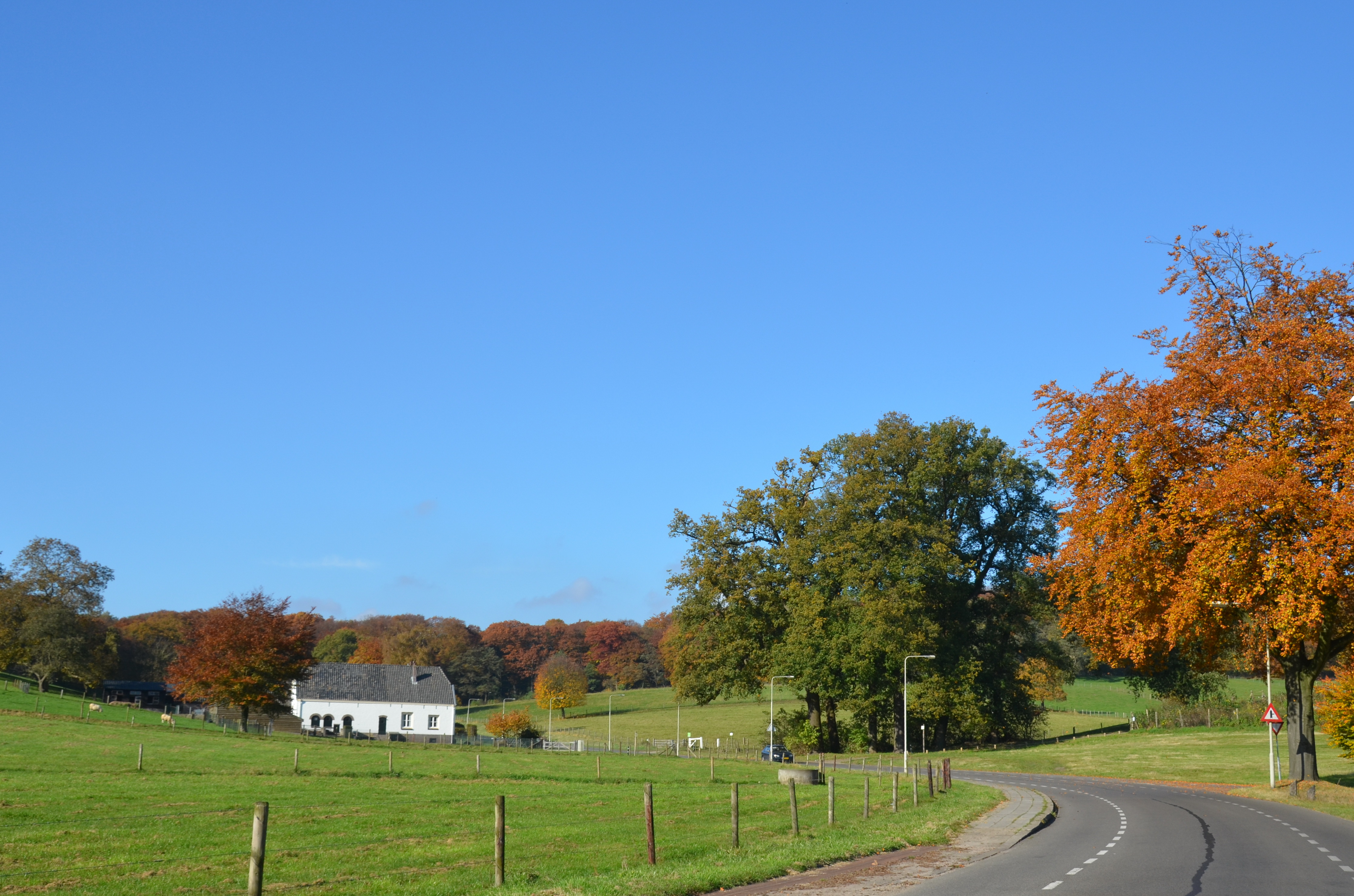 The lovely Bosweg at Arnhem Klarenbeek: real hills!